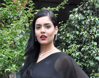 Nathalia Kaur at 'Indian Princess' event